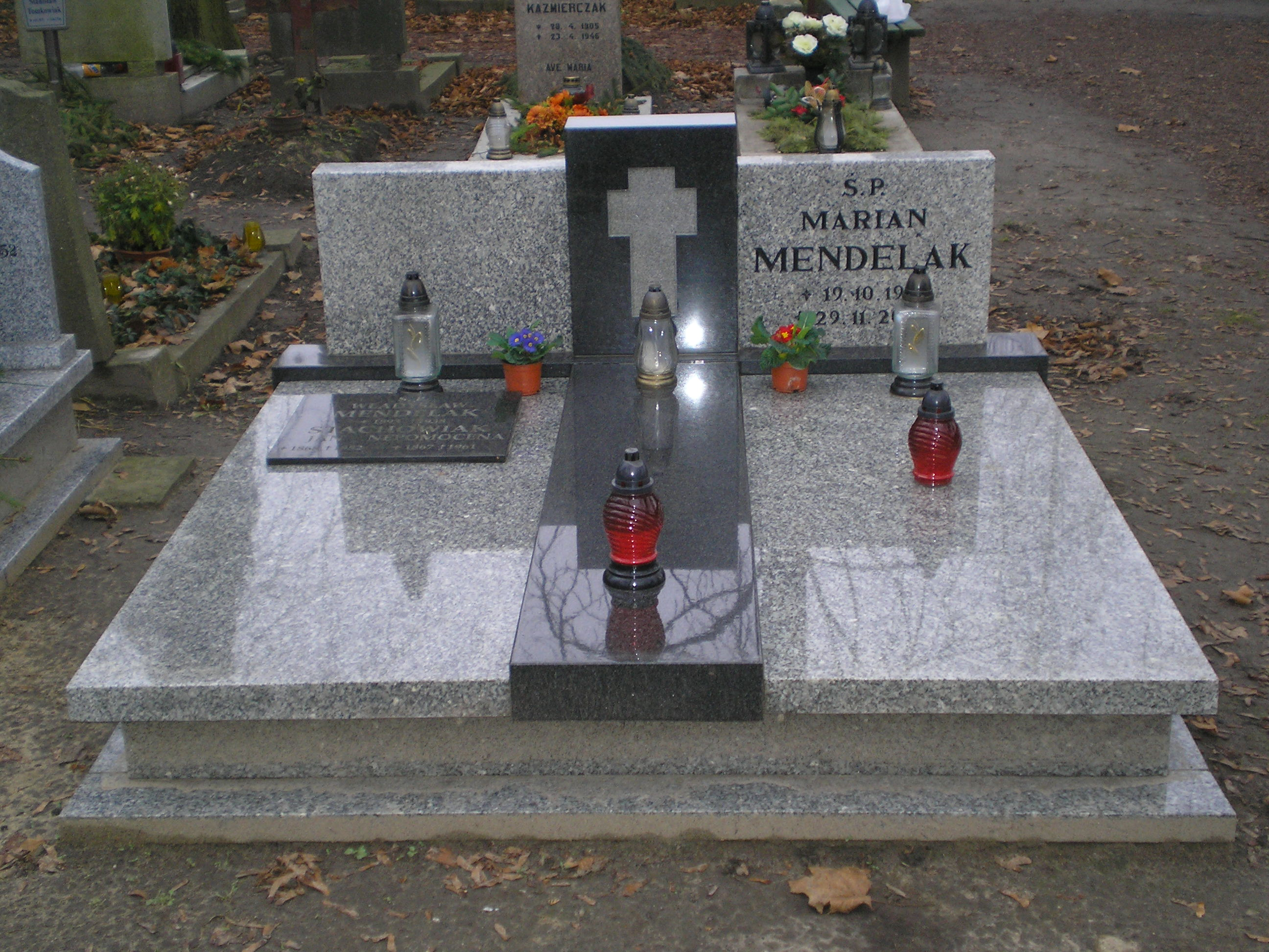 Boze Cialo Cemetery in Poznan. Gravestone of Marian Mendelak